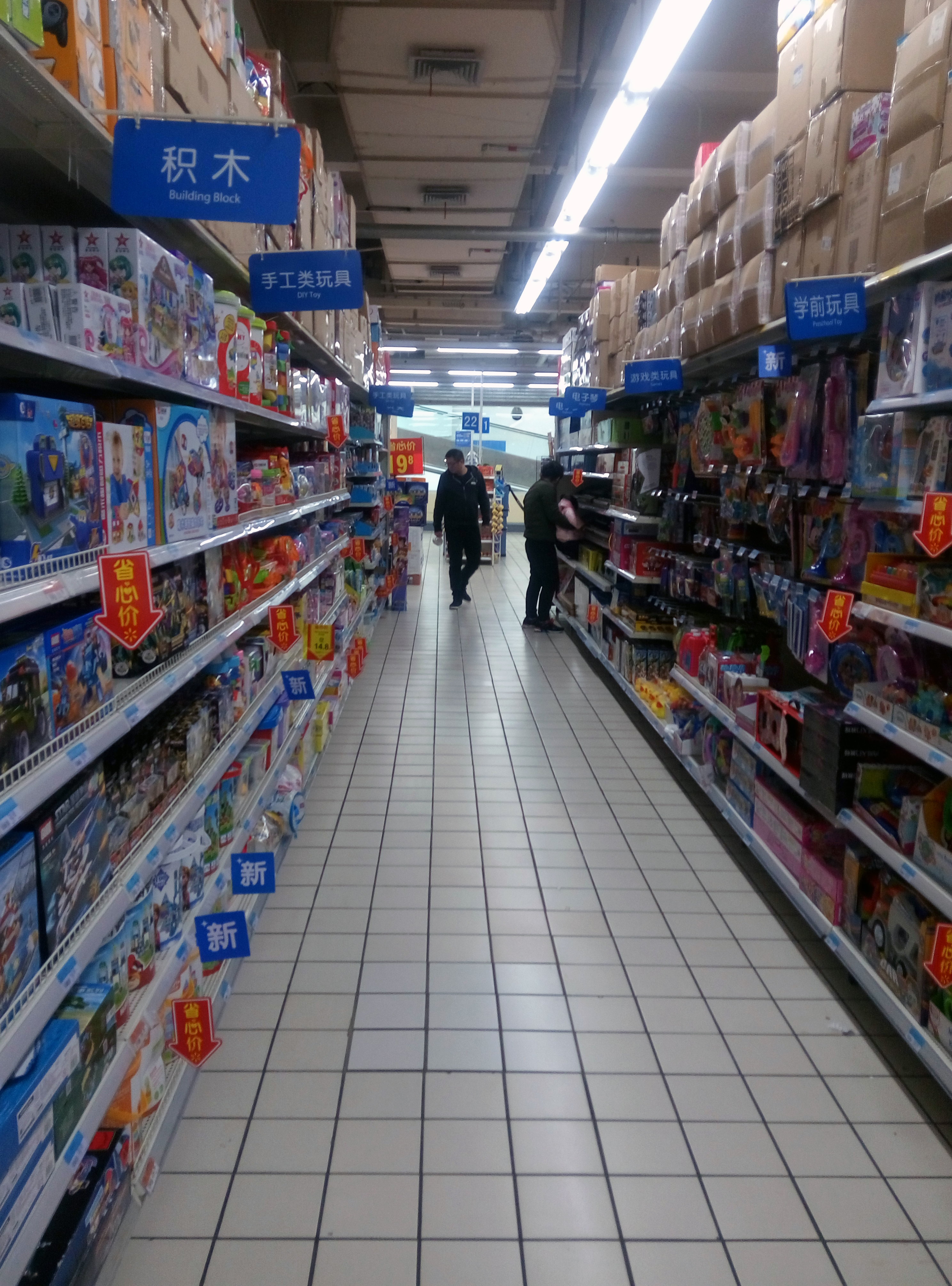 Toys in a Chinese supermarket.